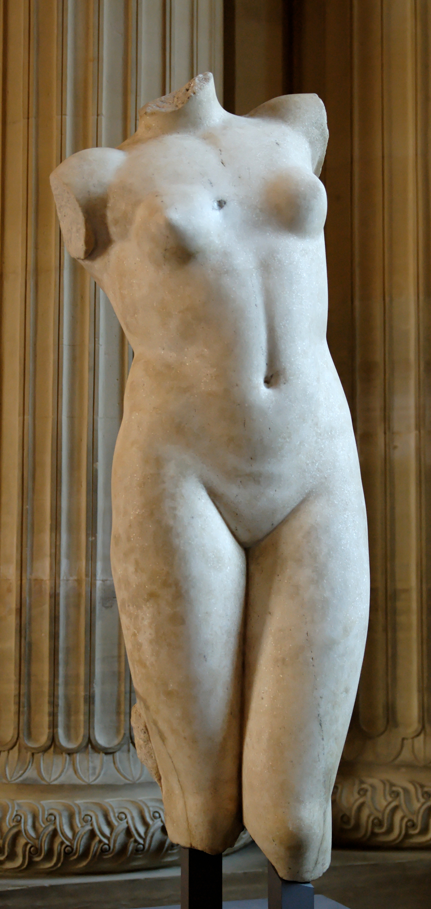 Fragmentary statue of Aphrodite, type of the “Esquiline Venus”. Roman copy of the Imperial Era (2nd century CE) after an Hellenistic Venus Anadyomenes.